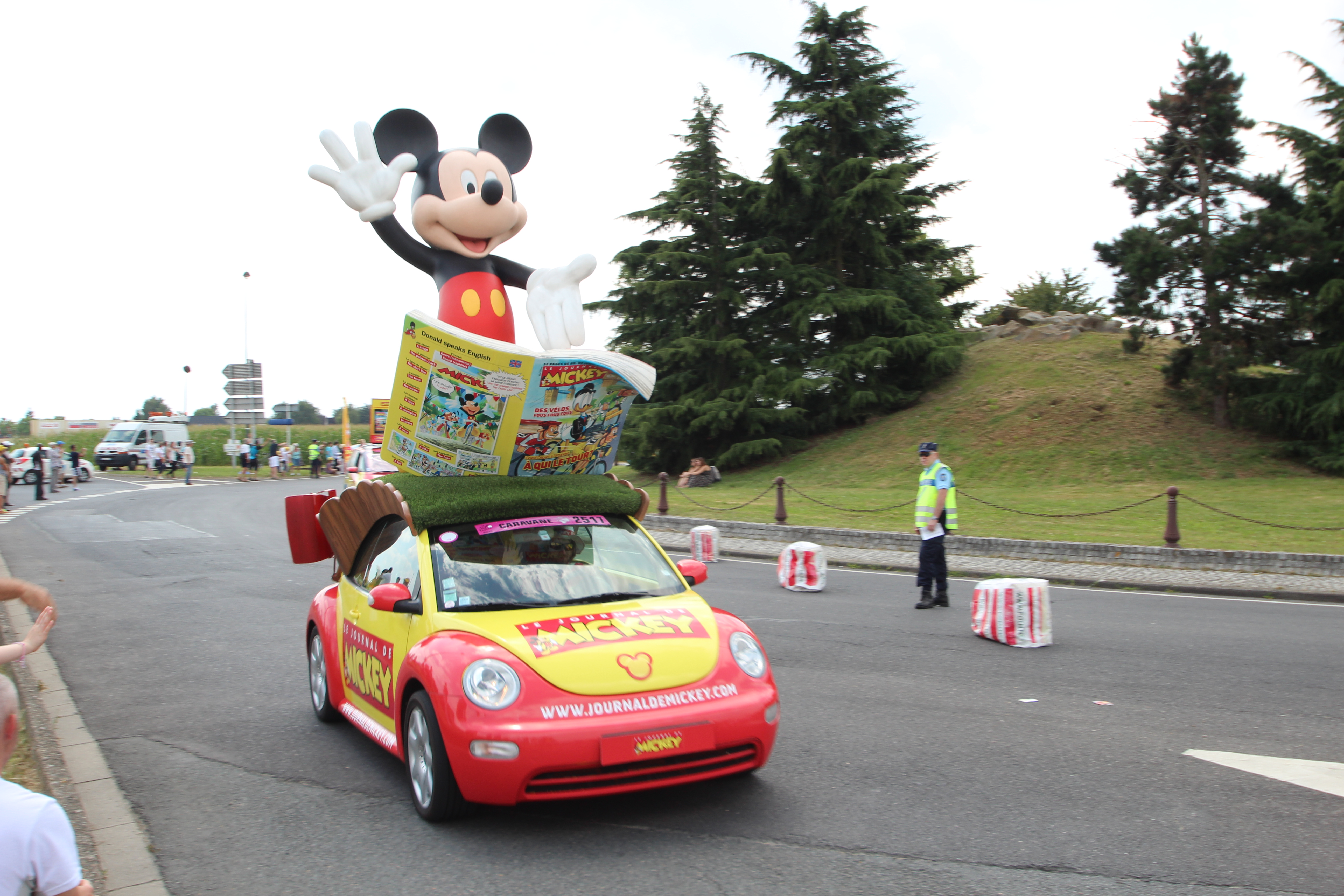 Caravan of the Tour de France 2014 July 27, 2014 in Gometz-la-Ville, France. Object location48° 40′ 35.1″ N, 2° 07′ 57.87″ E